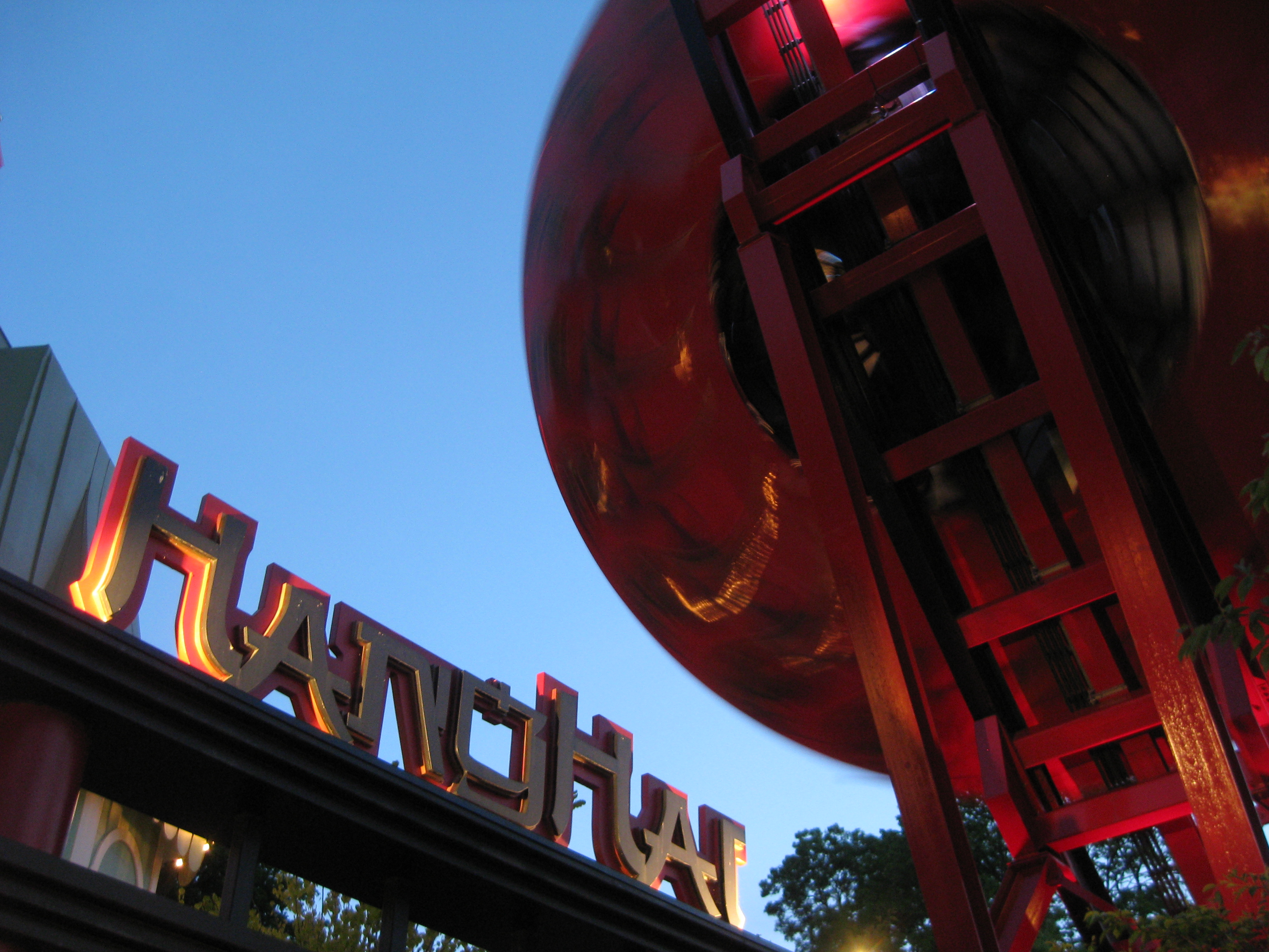 The ride "Hanghai" at Liseberg, Gothenburg.